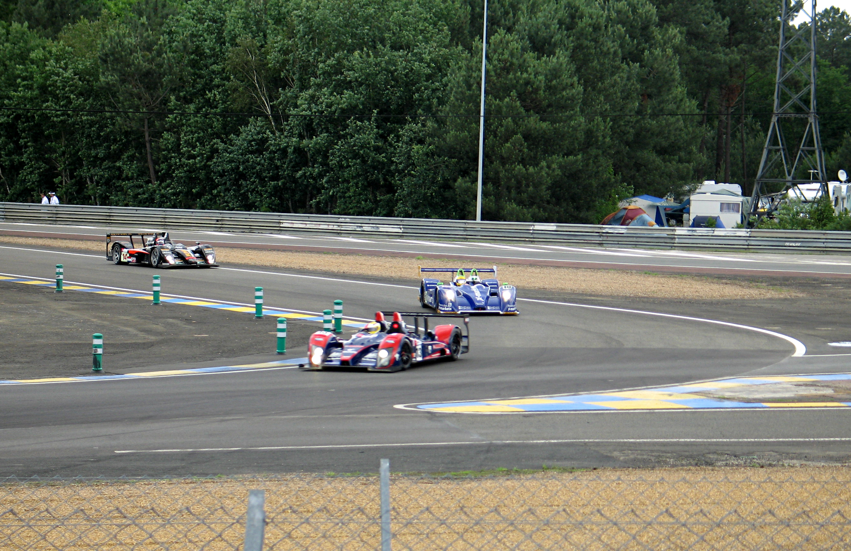 Mulsanne Corner at the 2007 24 Hours of Le Mans